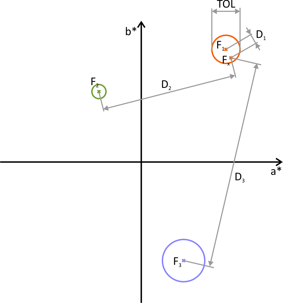 2D-diagram for explaining the color detection principle